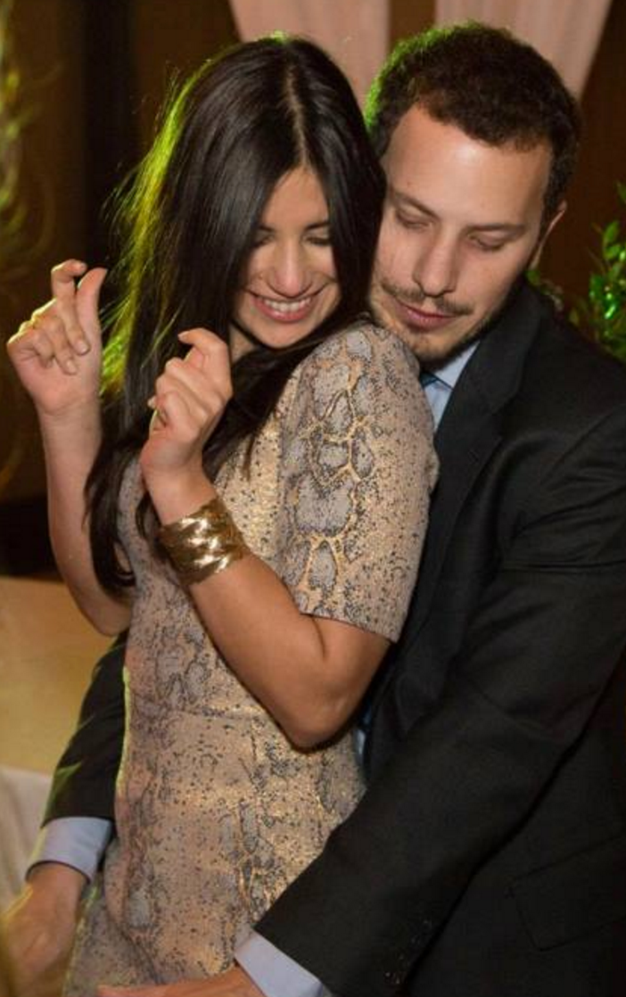 A man and woman grinding at a wedding.